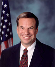 Bob Filner, member of the United States House of Representatives.